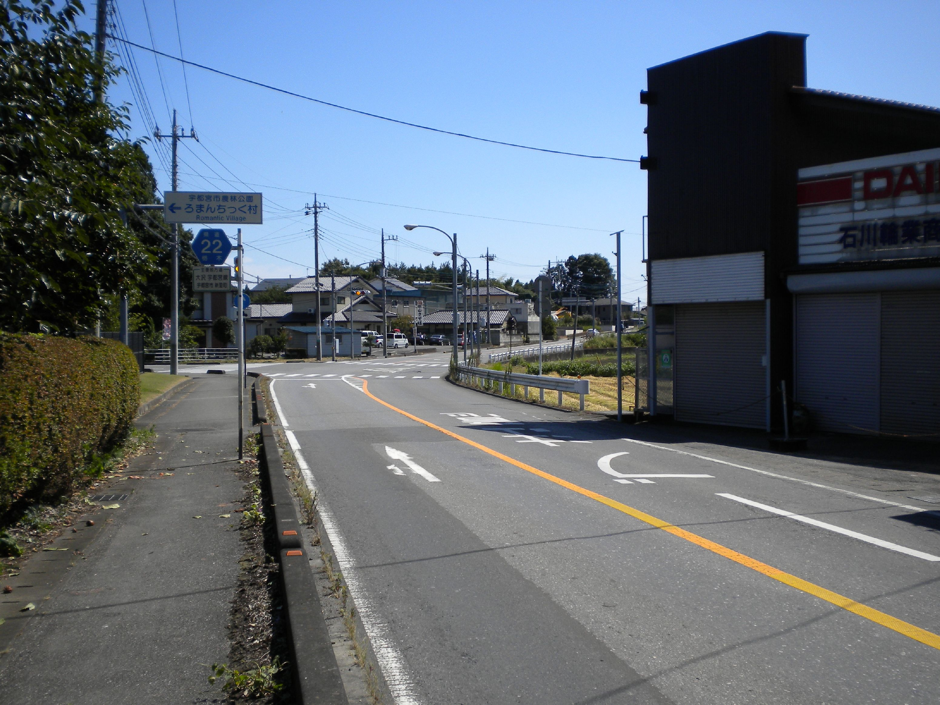 The Tochigi Prefectural Road Route 22 in Nissatomachi, Utsunomiya City